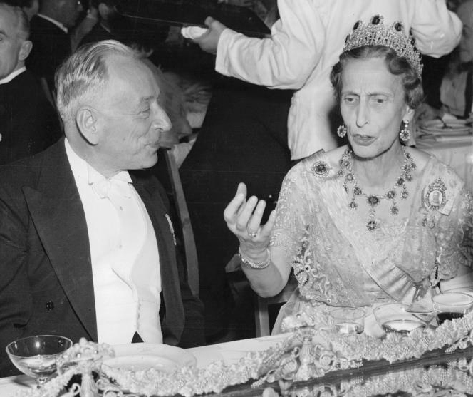 The Nobel Peace 1953. The Queen and Prof. Fritz Zernike